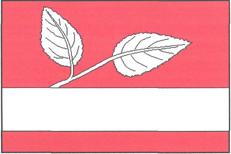 Municipal flag of Vážany village, Vyškov District, Czech Republic.